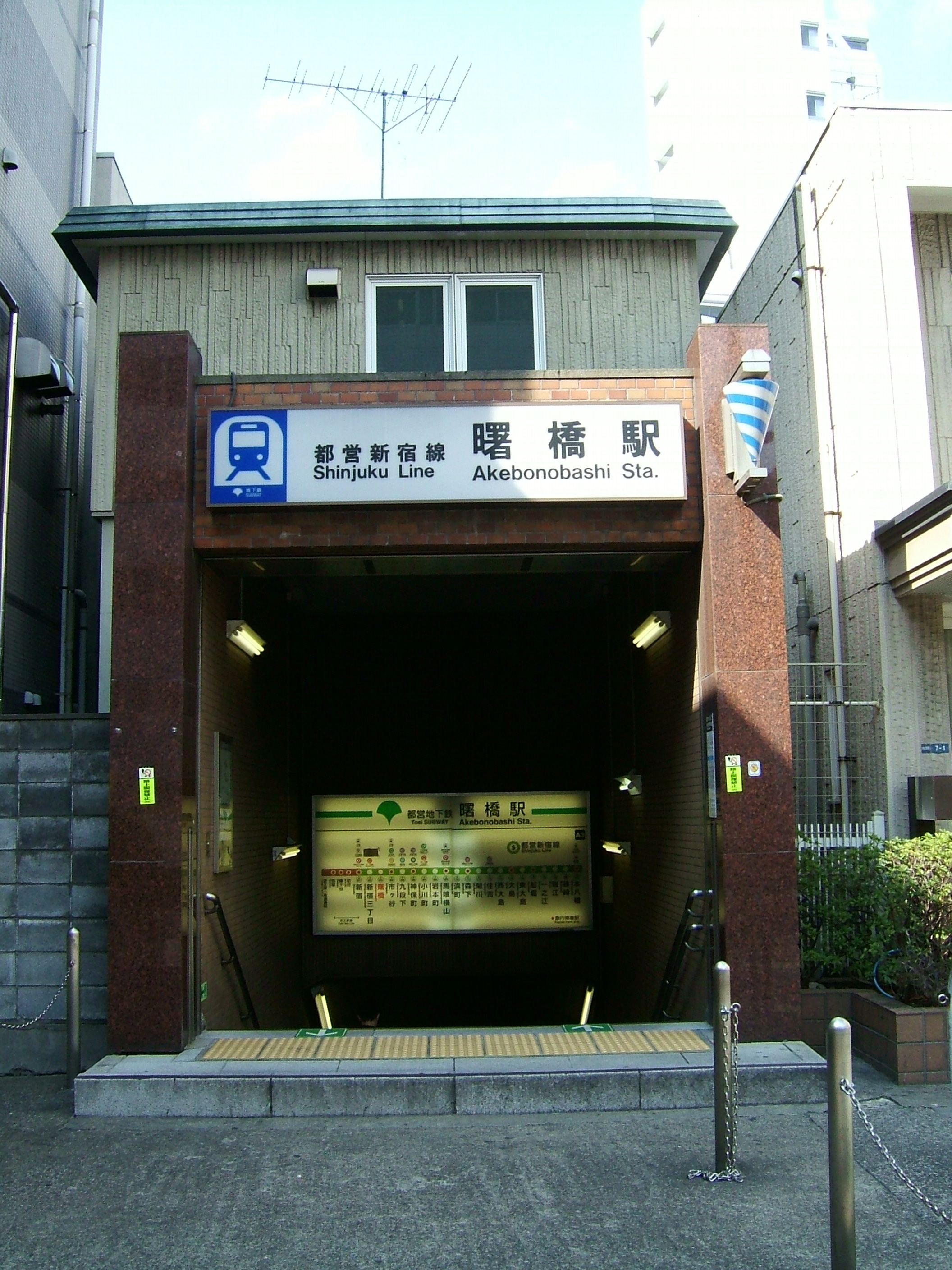 Akebonobashi Station A3 entrance (Toei Shinjuku Line)